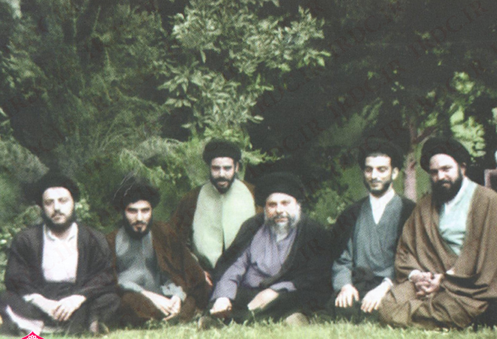 Mahmoud Hashemi Shahroudi